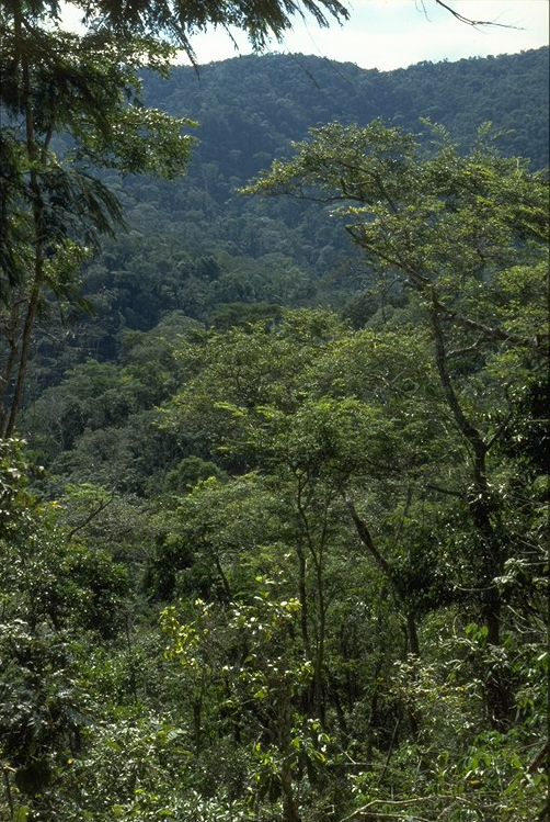 Feliciano Miguel Abdala Natural Reserve (former Caratinga Biological Station) in Minas Gerais, Brazil.